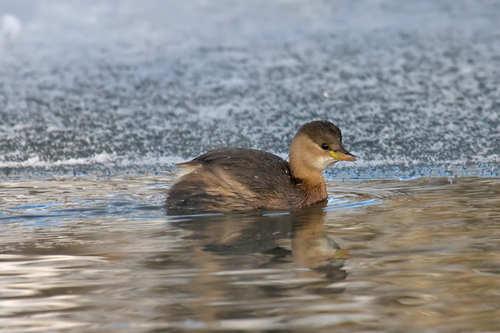 Little Grebe non breeding plumage